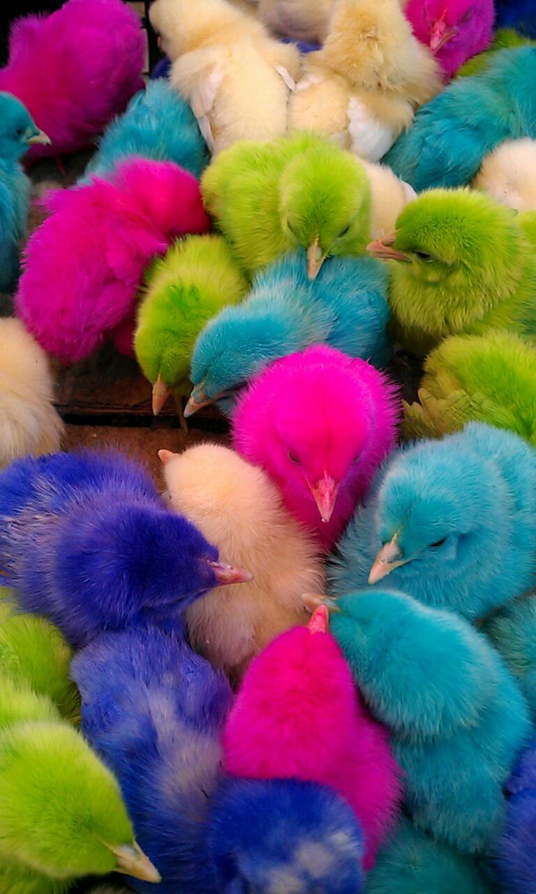 Colored Chicks on a box waiting for being bought.